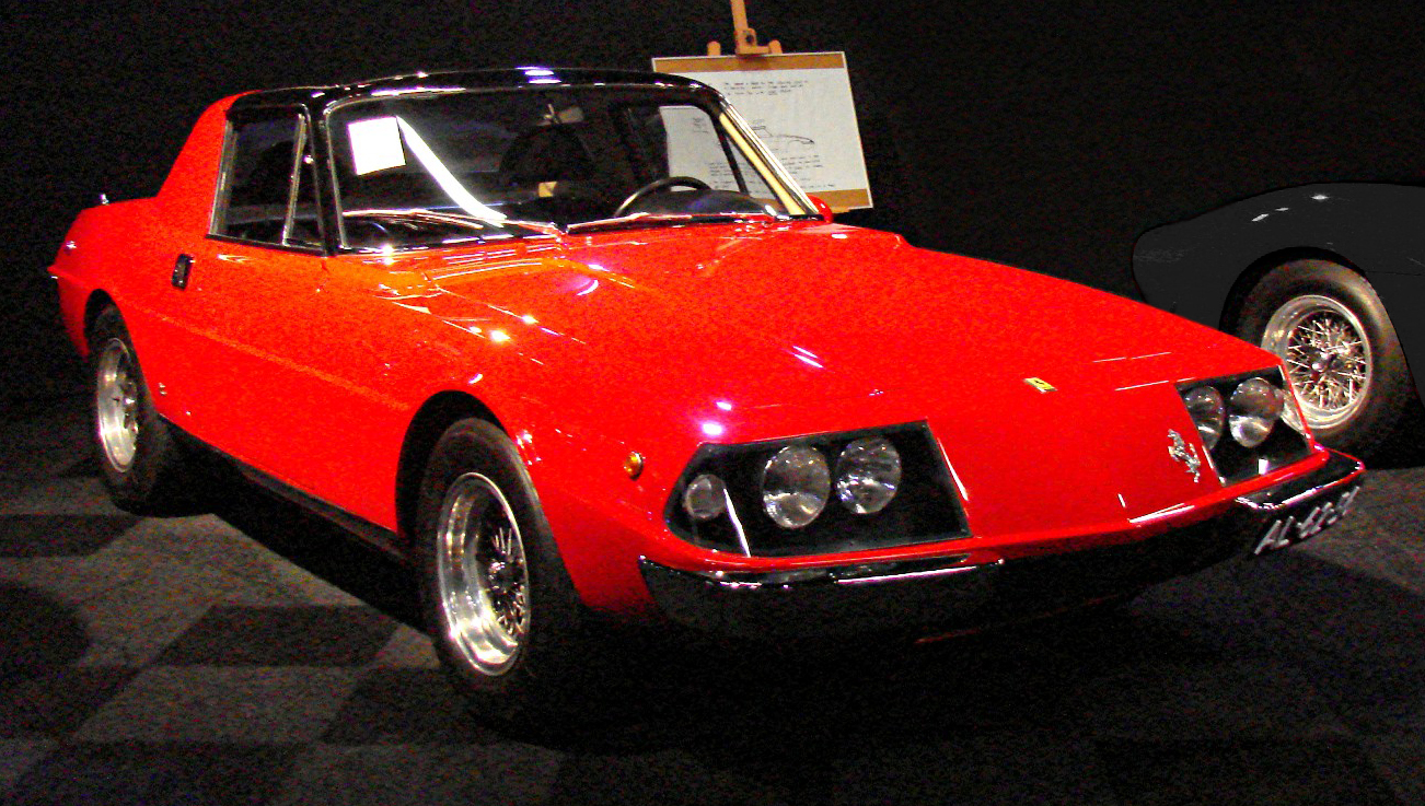 1967 Ferrari 330 GTC Zagato Convertibile, converted in 1974 at the orders of Luigi Chinetti.